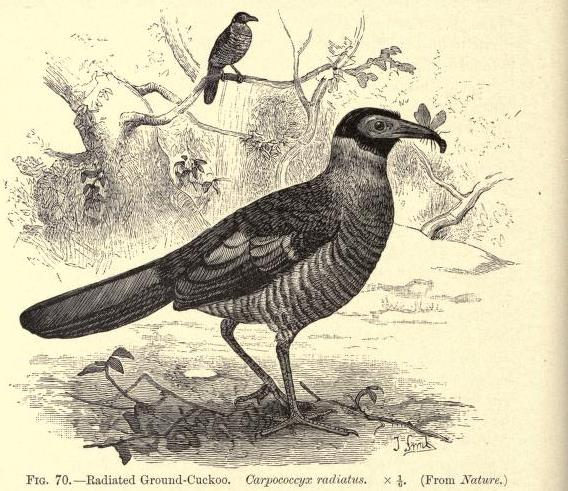 Radiated Ground-Cuckoo Carpococcyx radiatus = Carpococcyx radiceus